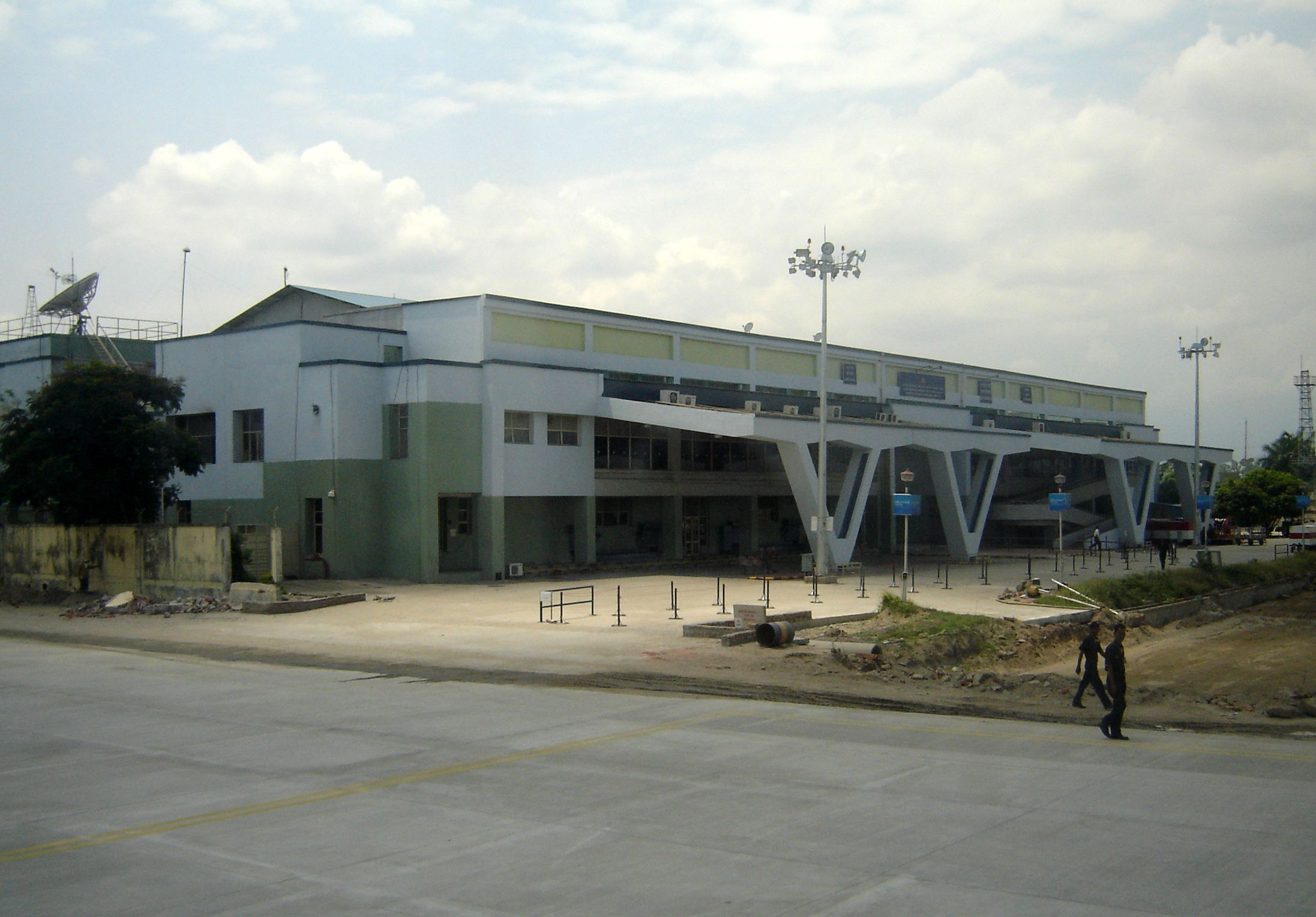 The combined civilian terminal of the Bagdogra International Airport, before its expansion in 2009.